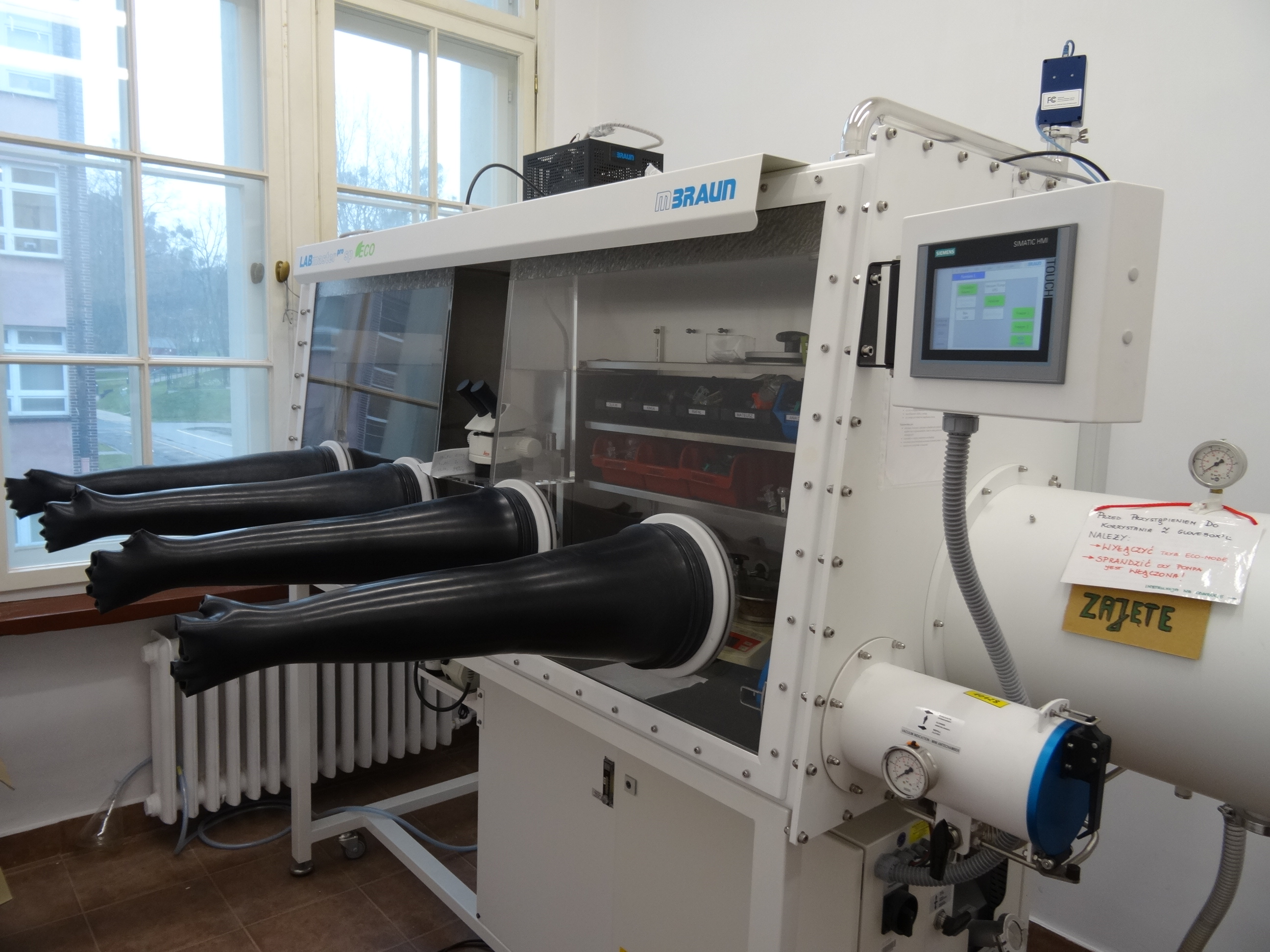 Glovebox - an ordinary glovebox, showing the four gloves for manipulation, with airlock on the right. Gdansk University of Technology, Department of Inorganic Chemistry